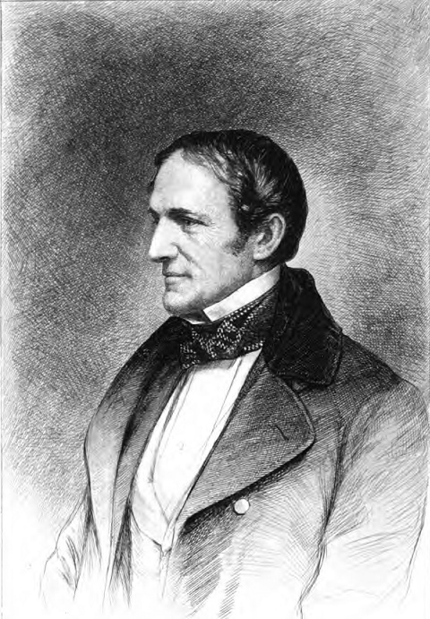 Portrait of William Hickling Prescott. Black-and-white illustration. From The Historians' History of the World Volume X.